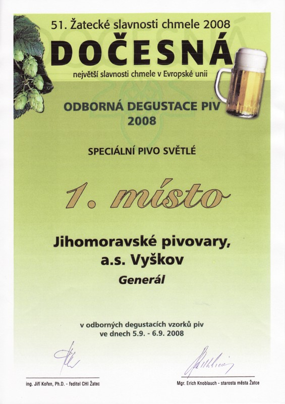 Harvest late 2008